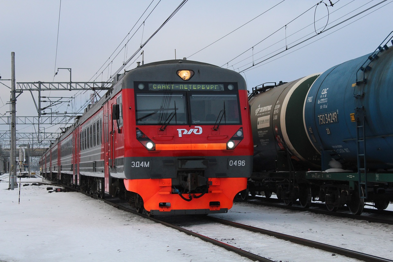 Electric multiple unit train ED4M-0496 at Levashovo station